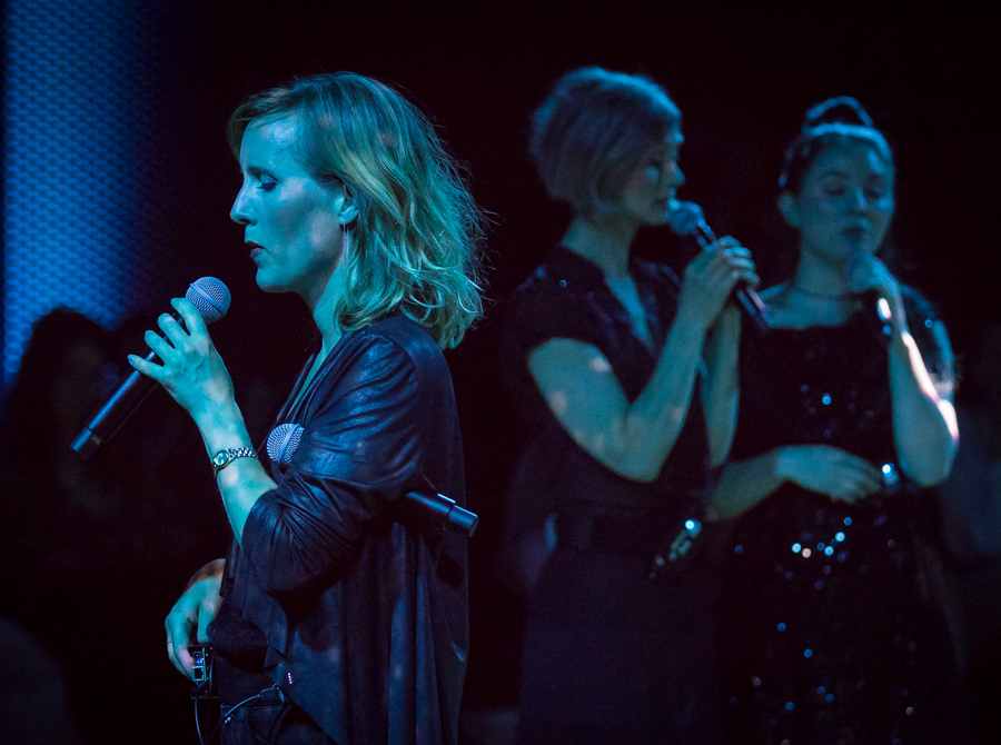 Trondheim Voices at Sølvsalen. The concert was part of Kongsberg Jazzfestival and took place on 06. July 2017. Lineup: Sissel Vera Pettersen (vocal) Tone Åse (vocal) Heidi Skjerve (vocal) Silje Ræstad Karlsen (vocal) Anita Kaasbøll (vocal) Torunn Sævik (vocal) Mia Marlen Berg (vocal) Live Maria Roggen (vocal)